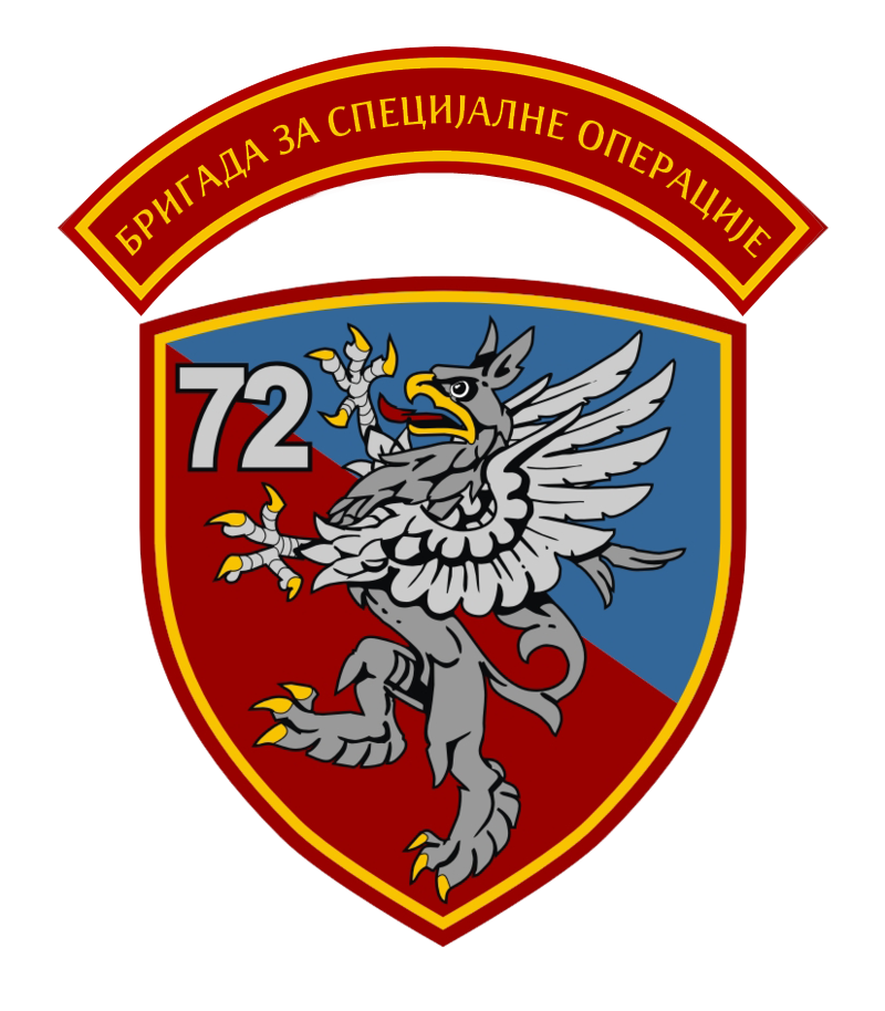 72nd Reconnaissance-Commando Battalion emblem